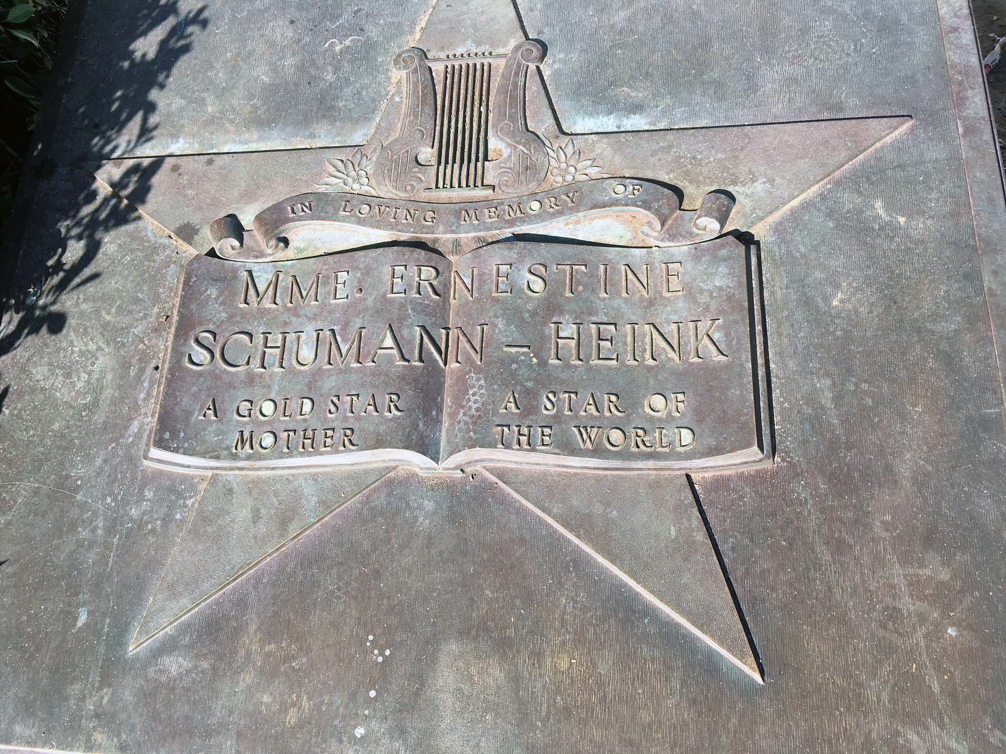 Memorial plaque to Mme. Ernestine Schumann-Heink. Organ Pavilion, Balboa Park, San Diego, California. Dedicated May 30, 1938.